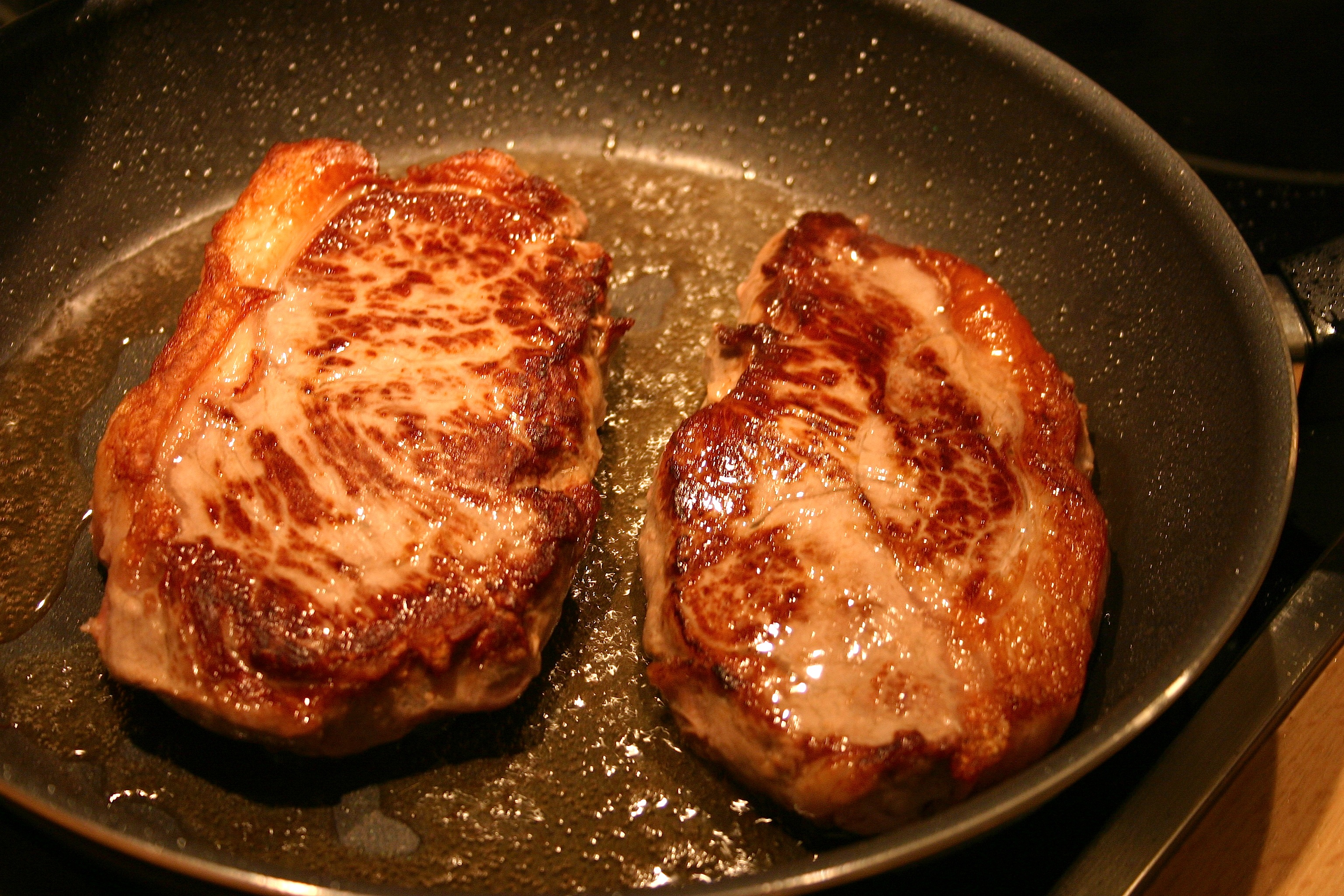 Frying two steaks on a pan, with pepper and salt.